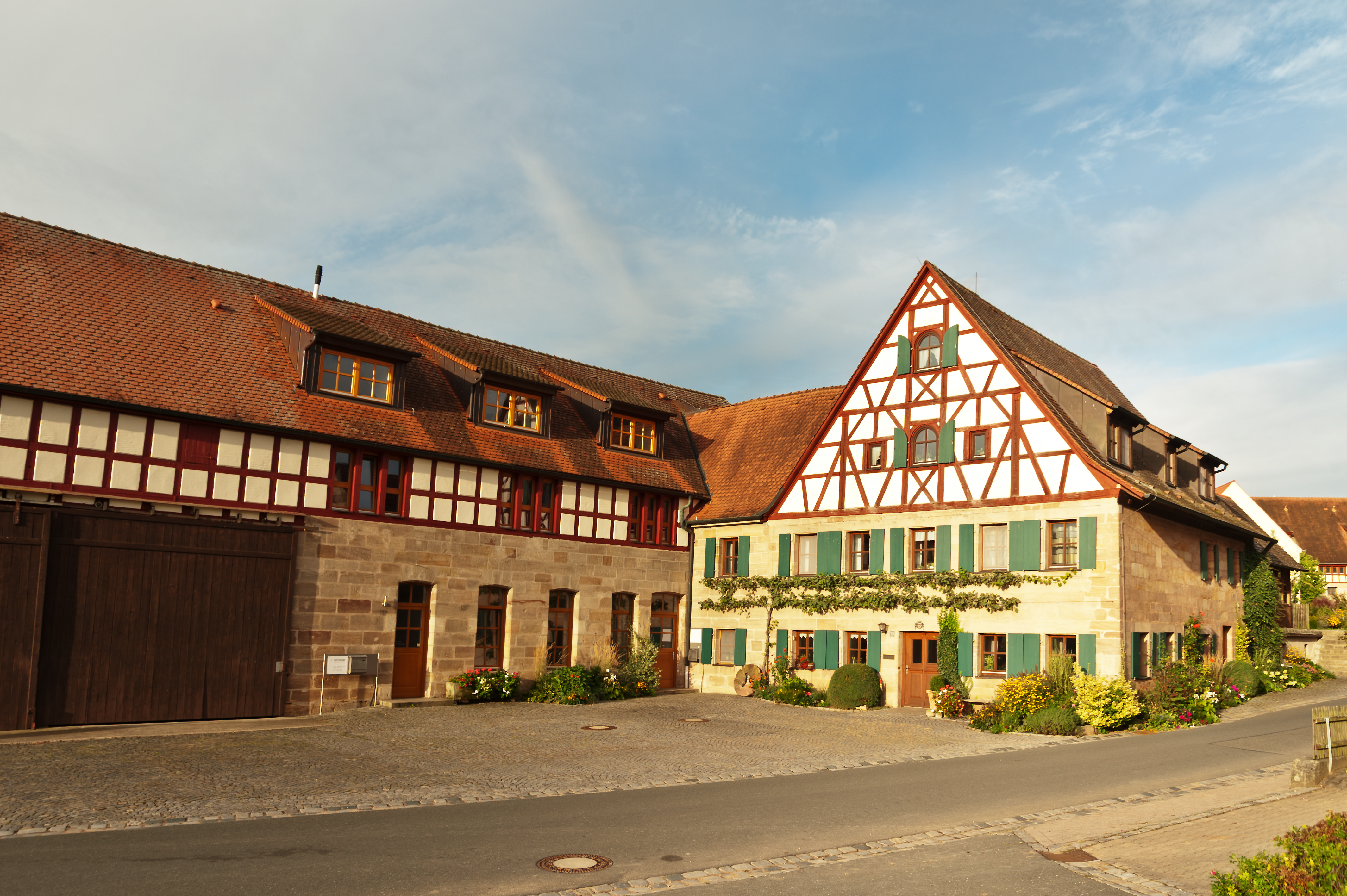 This is a photograph of an architectural monument.